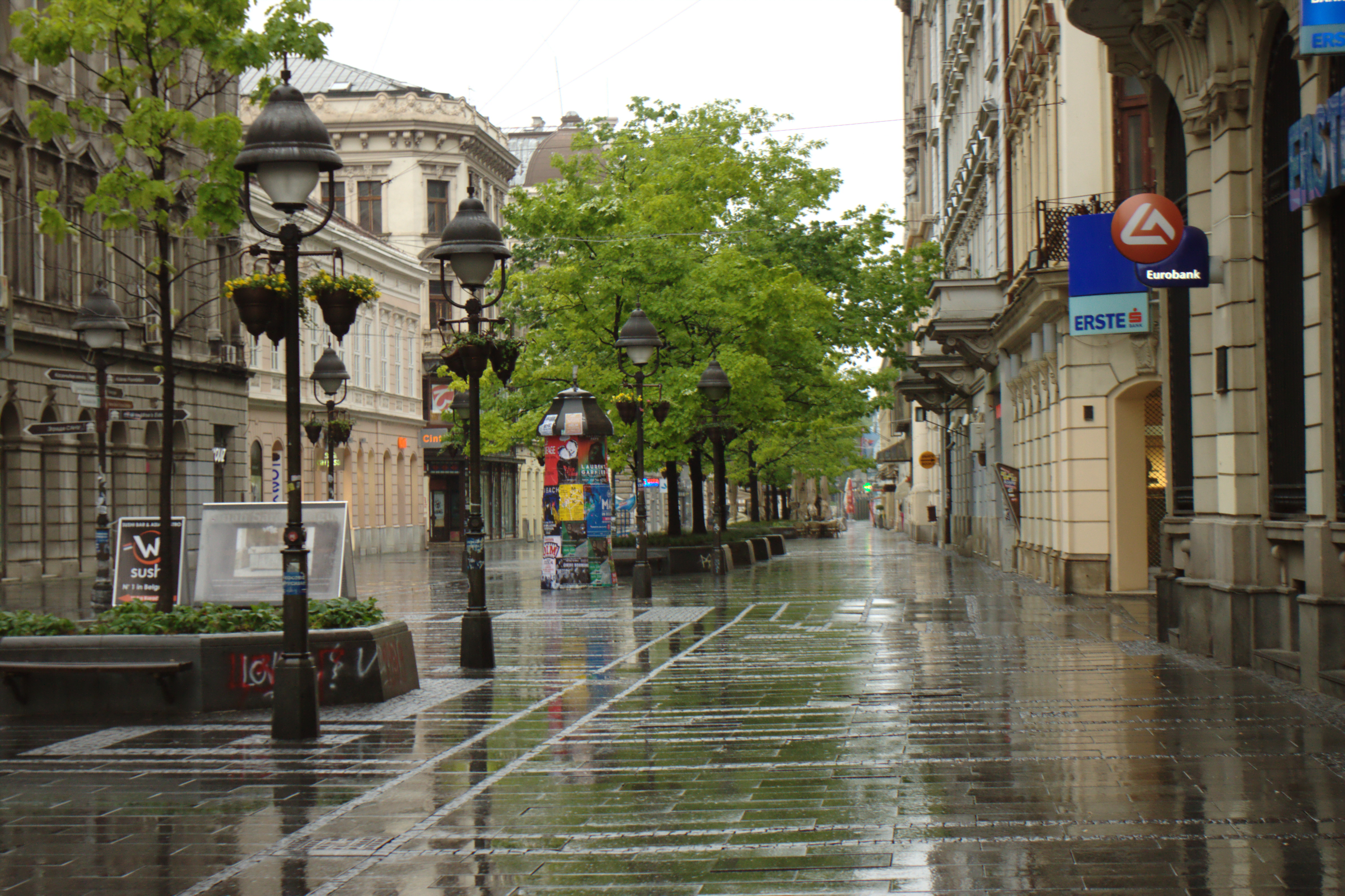 Knez Mihajlova Street in central Belgrade